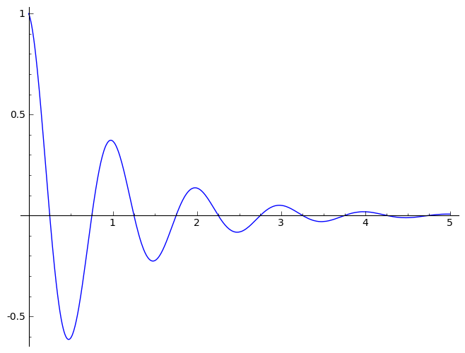 Exponentially decaying cosine function y=(e^-x)(cos(2*pi*x)) This image was created using sage - This diagram was created with Sage.